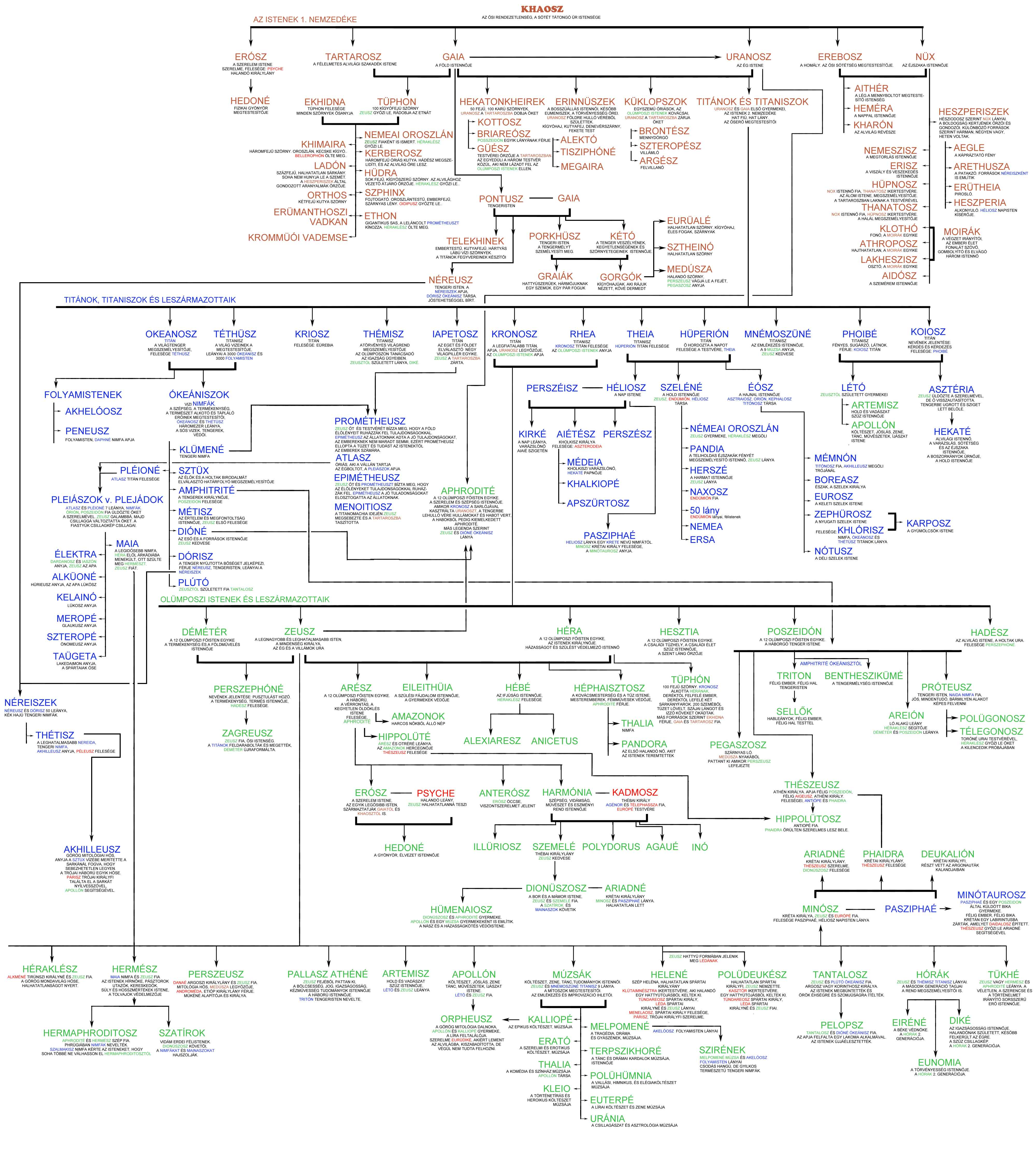 A görög mitológia isteneinek és utódaiknak családfája. Részlet.